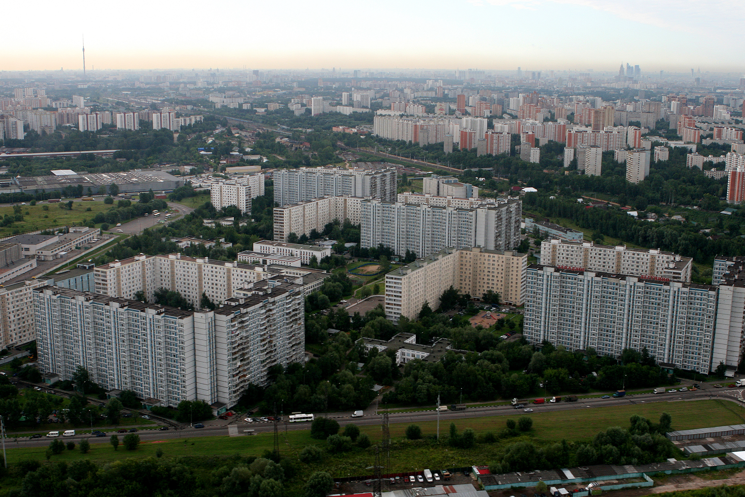 Zapadnoe Degunino, North, Moscow.